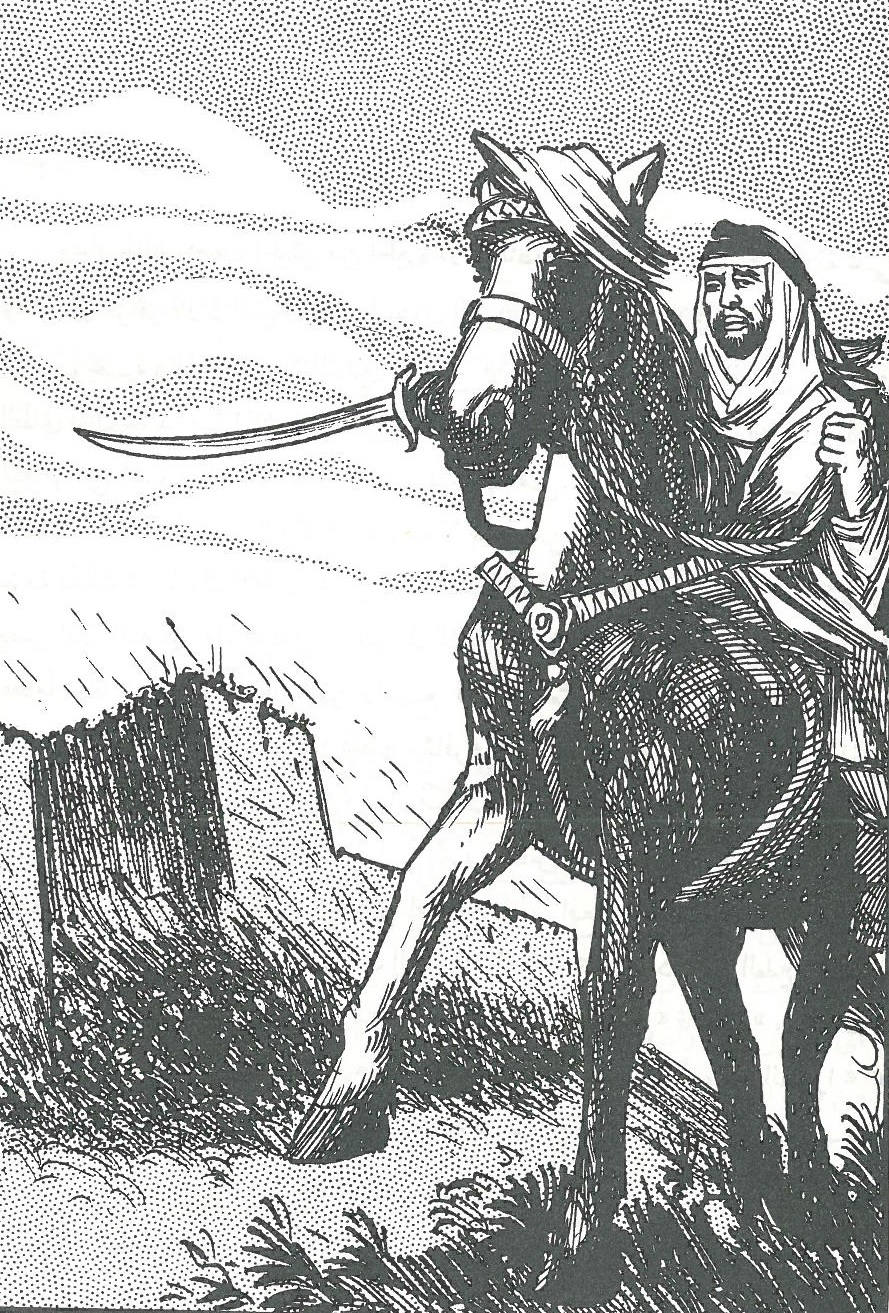 Khalid ibn al-Walid during the seige of Al-Anbar.